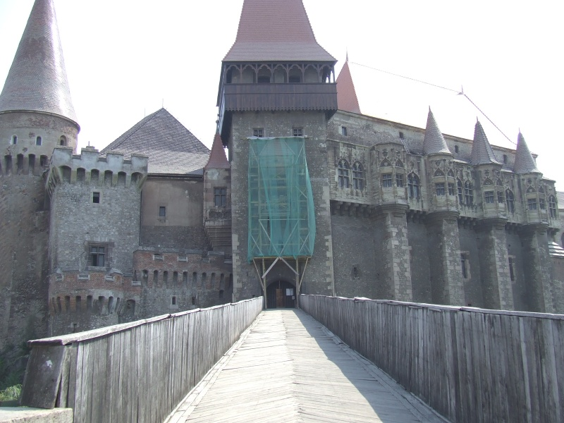 The Castle of Hunedoara (also known as Corvins' Castle), Cluj County, Romania